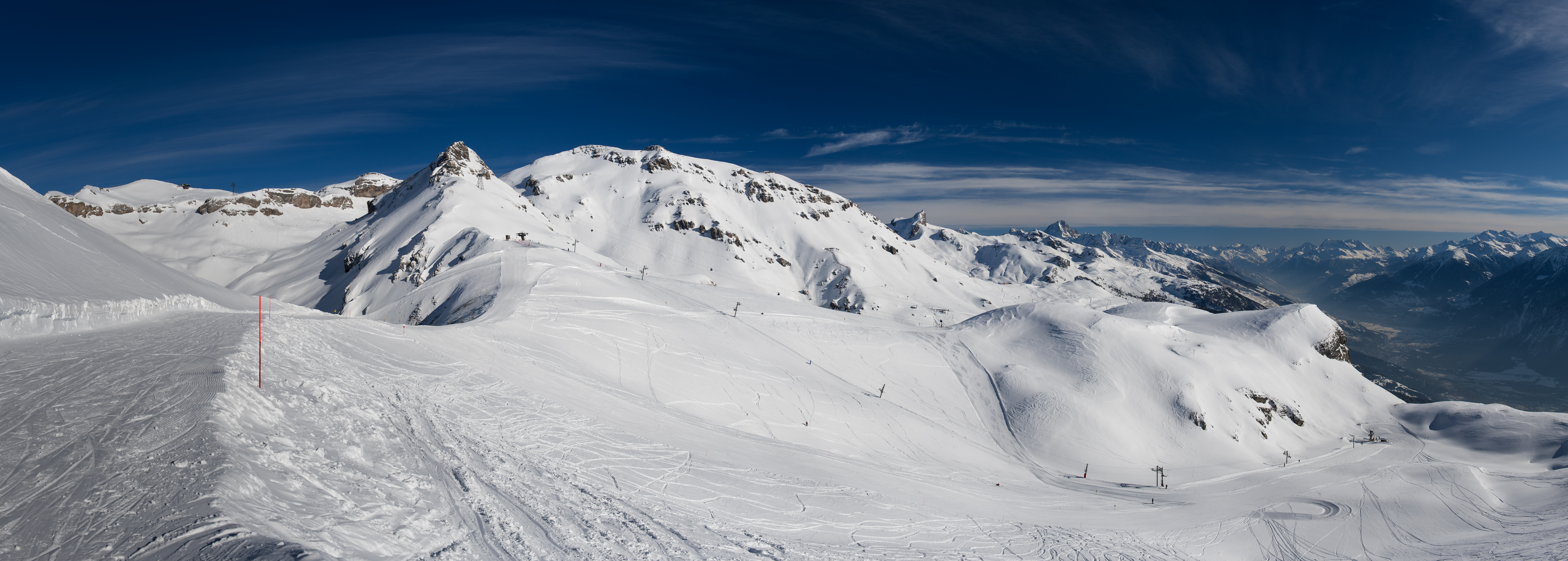 View from Bella Lui